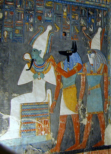 Detail of the frieze of the wells in the tomb of Pharaoh Horemheb, showing the gods Osiris, Anubis, and Horus.